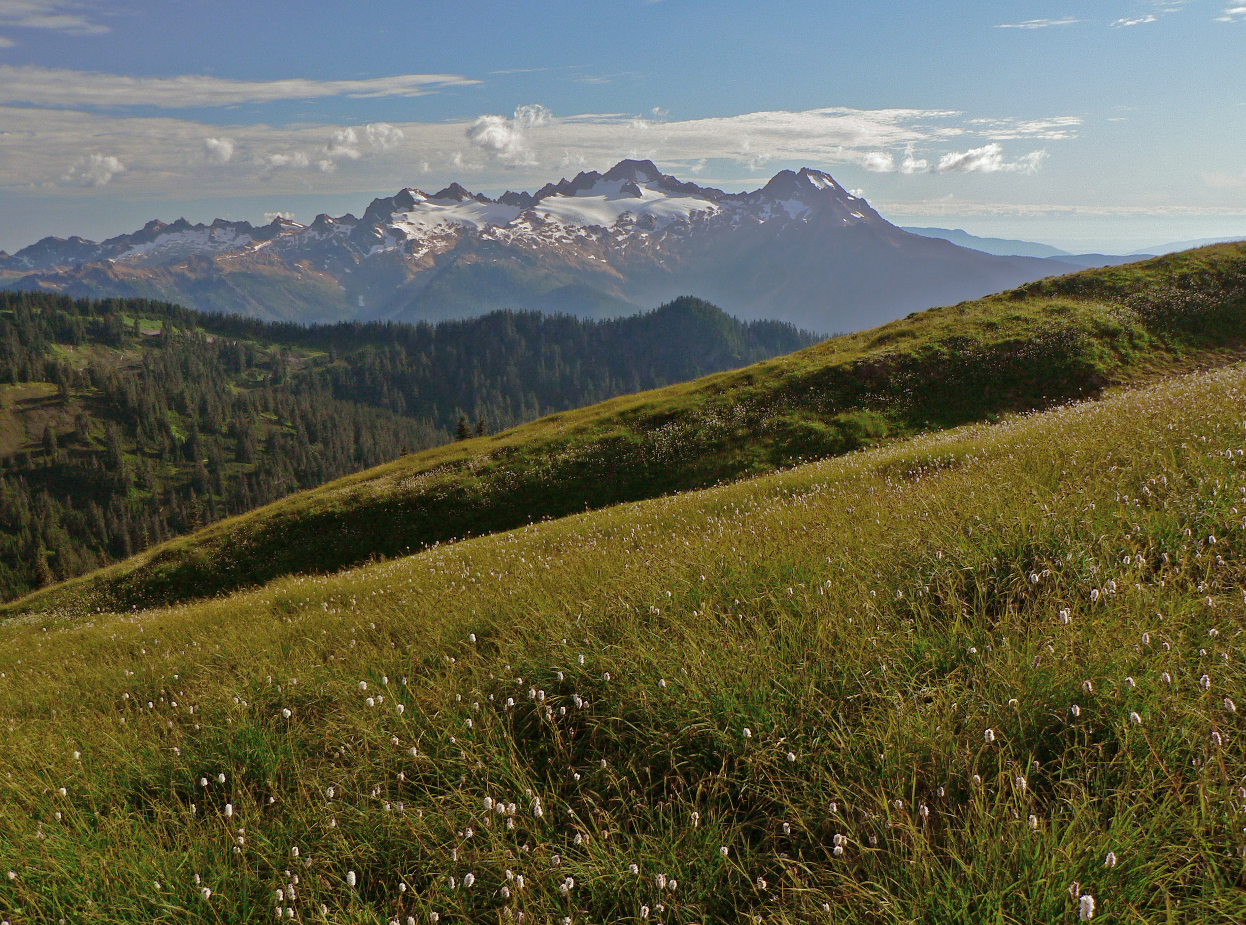 Twin Sisters Mountain South Twin (7000+ feet, 2134+ m, center); North Twin (6640+ feet, 2024+ m, right); Sisters Glacier; Marmot Ridge (middle distance)